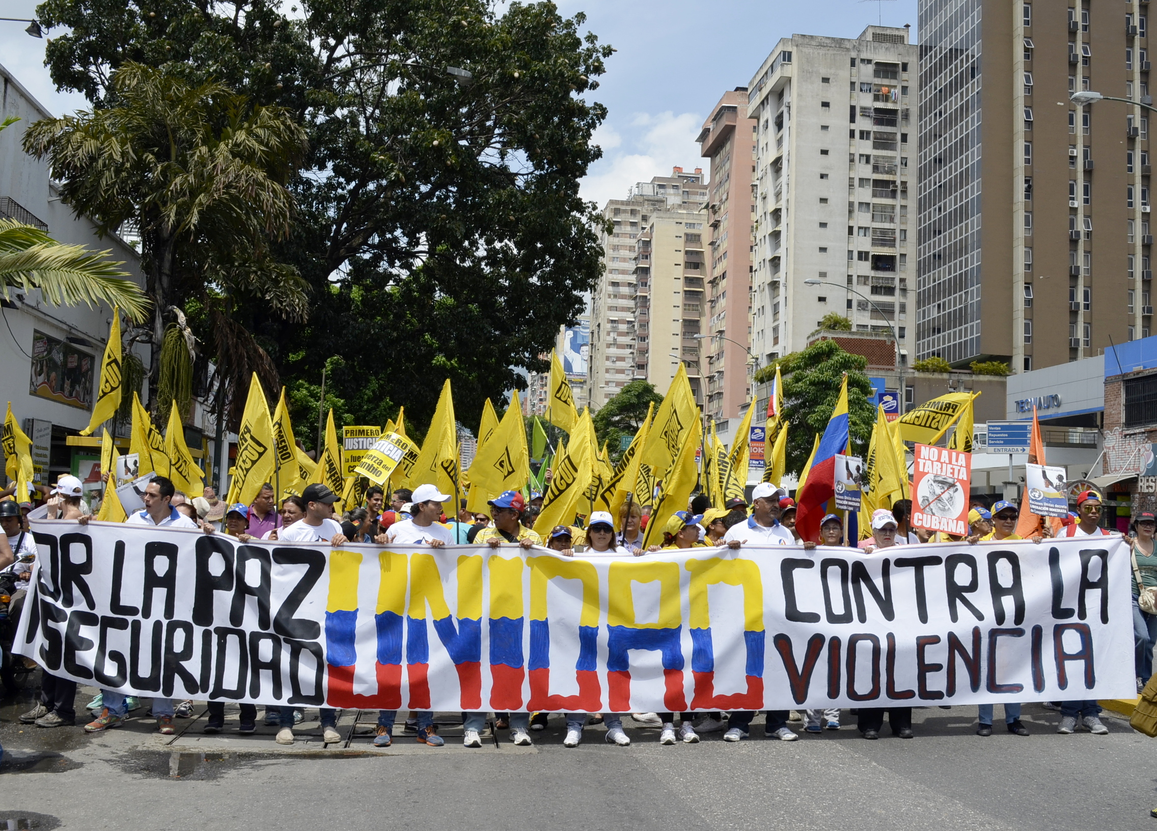 Individuals gathered holding a banner for the "Walk For Peace" march.